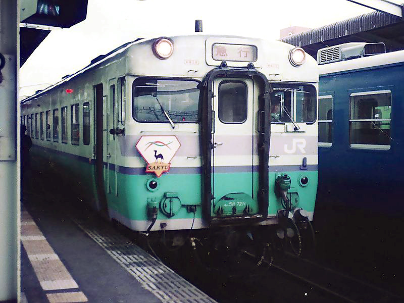 JR West Japan Express "Sakyu" Type:DMU type kiha58. Code:キハ58 7211 Location:at Tottori Station, in Tottori City, Tottori, Japan. Scanned from negative color print